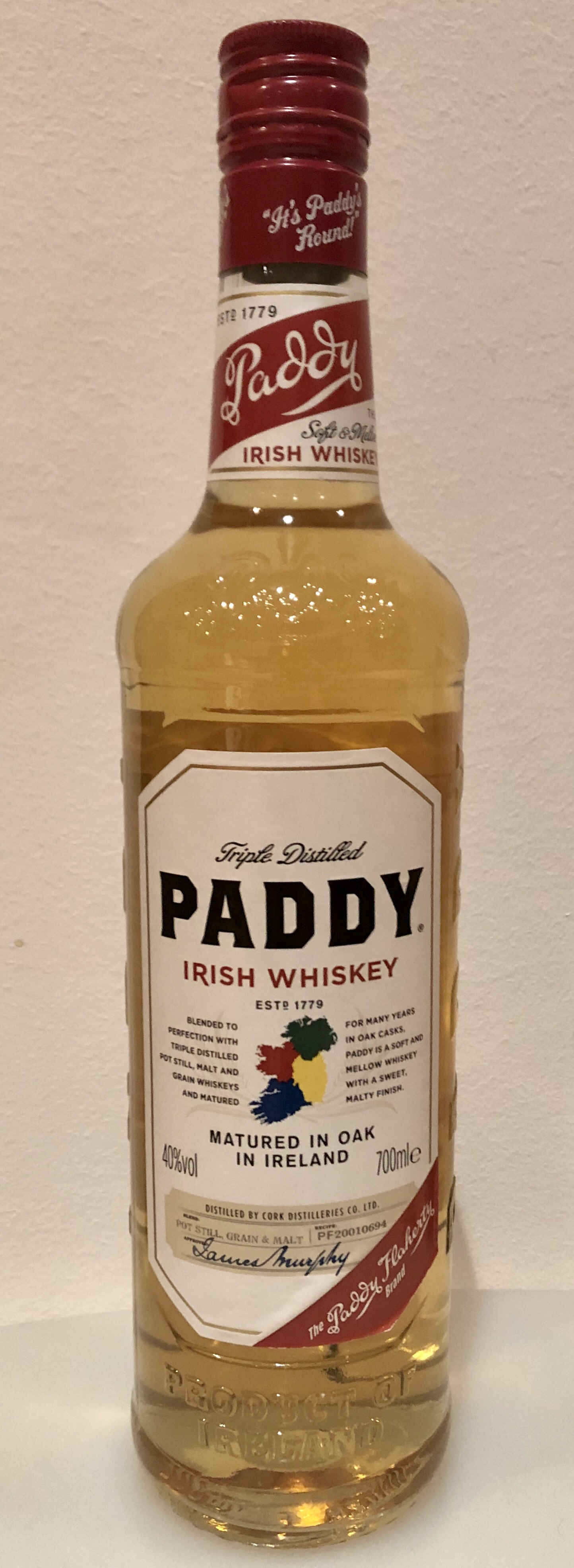 Bottle of Paddy Whiskey